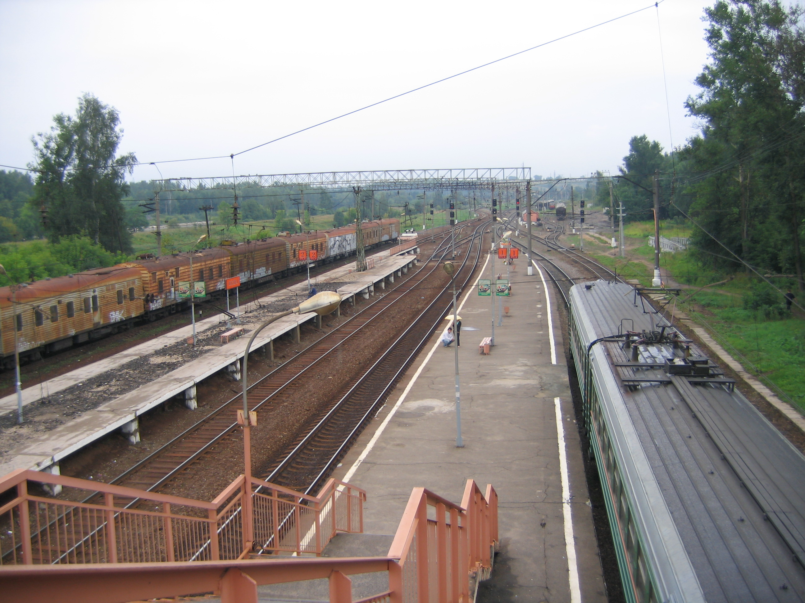 Iksha railway station in Moscow Region, Russia